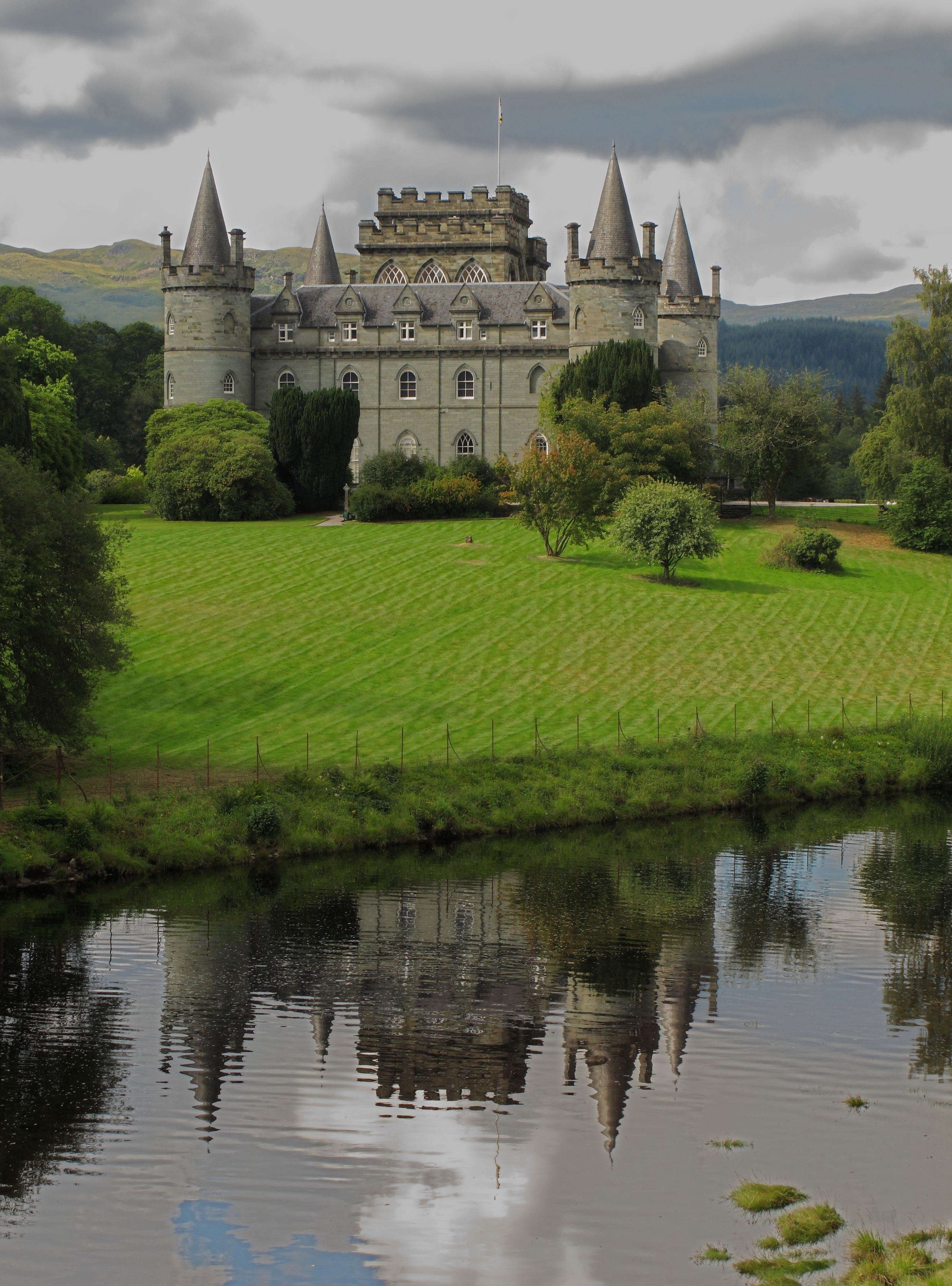 Ancestral home of the Duke of Argyll